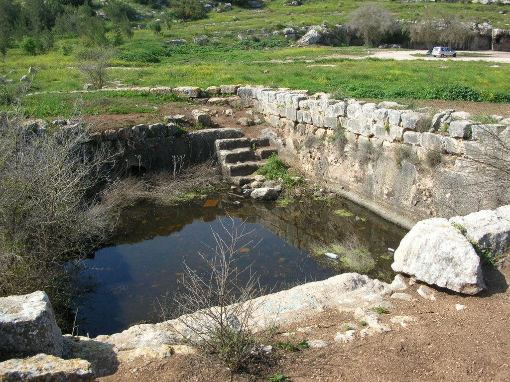 Monks Valley in Modiin